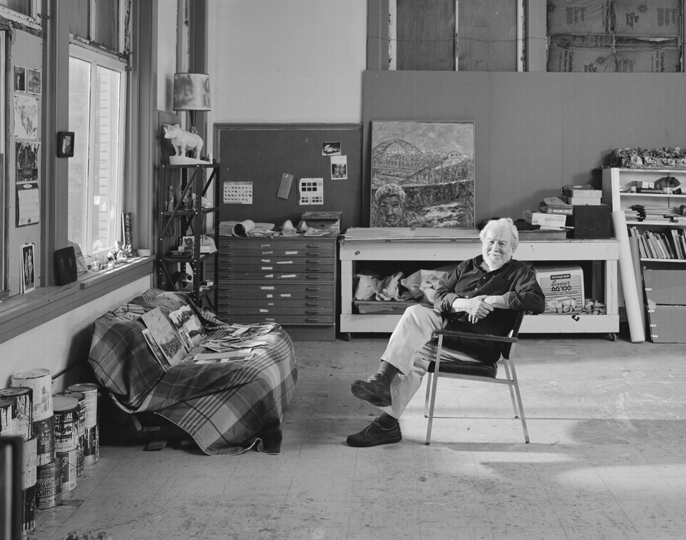 Photograph by Mark Perrott of Pittsburgh artist Robert Qualters seated in his Homstead, PA studio.